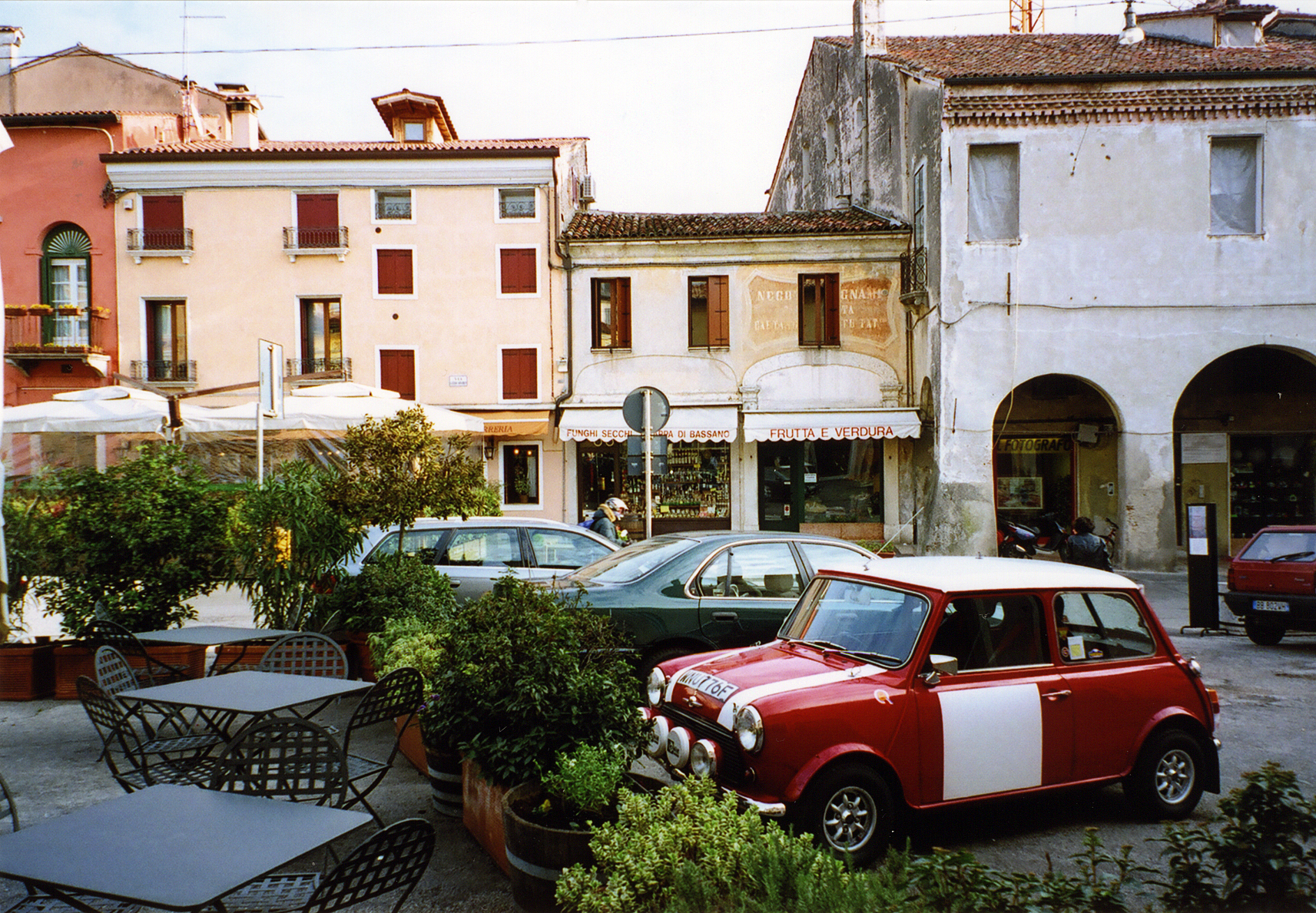 Terraglio SquareAn English gentleman in Italy